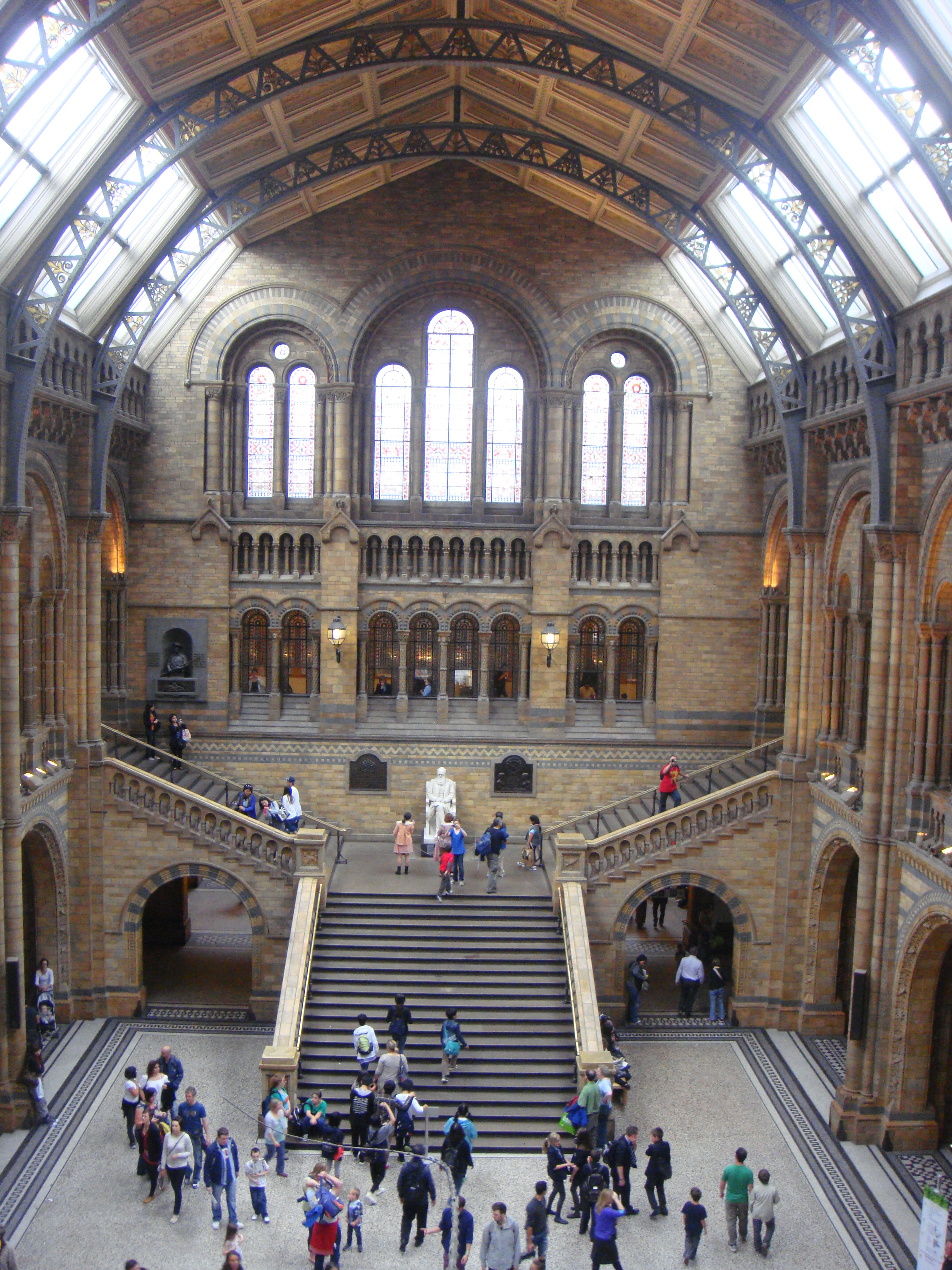 Visit Natural History Museum